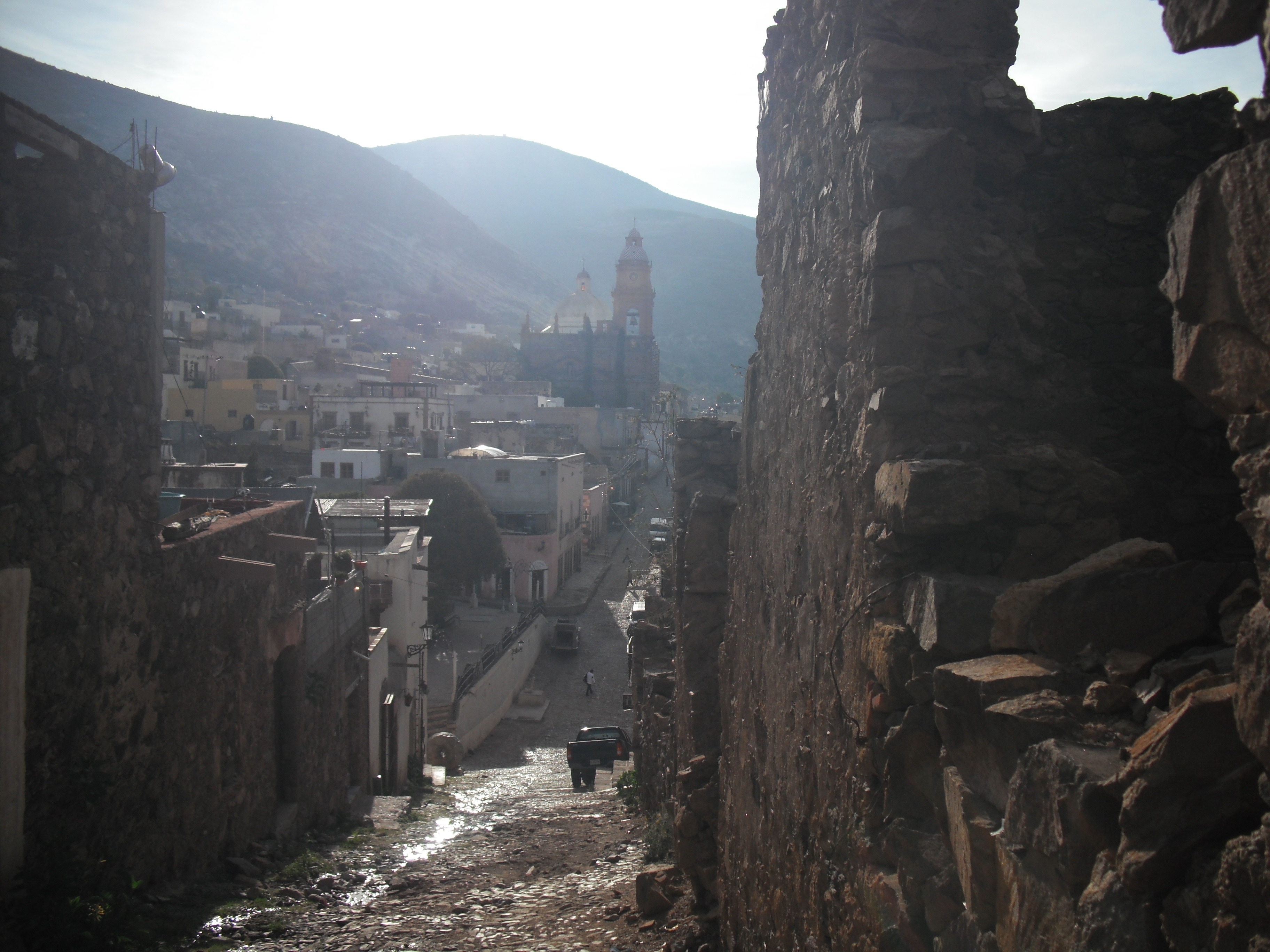 Calle Constitucion, the main street in Real de Catorce